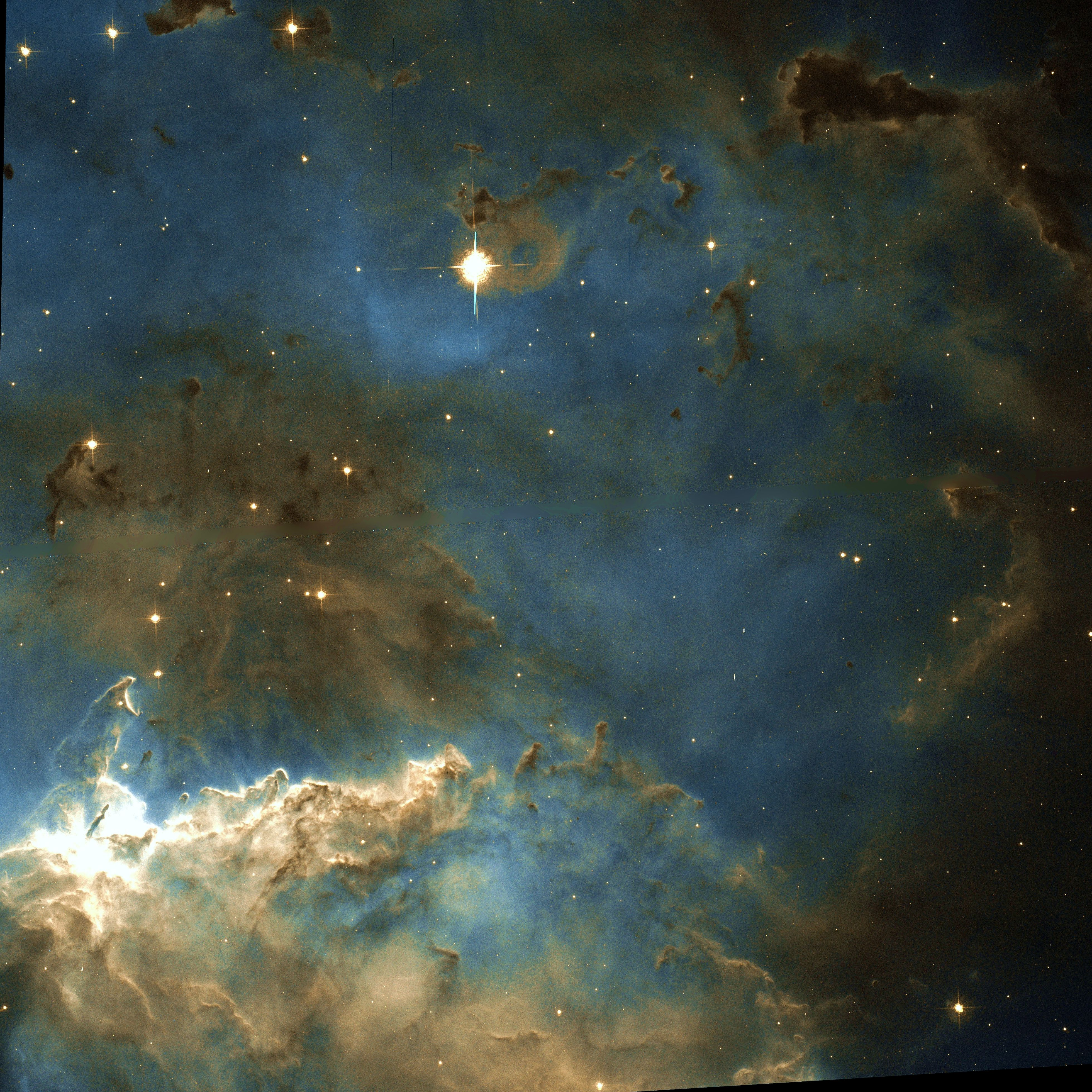 NGC 2467 open cluster and emission nebula by Hubble Space Telescope; 3.2′ view